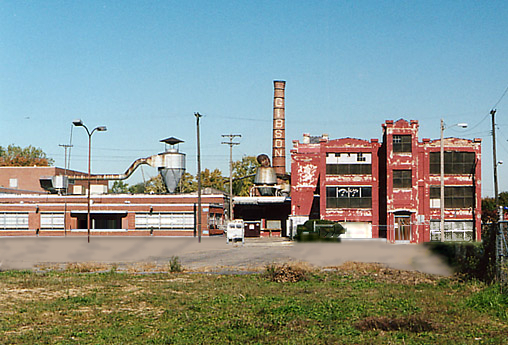 Heritage Guitar Inc., 225 Parsons St., Kalamazoo, MI (photo: 2000 by Frank Schulz) Clipped, hidden the foregrounds (automobiles in the parking), and extrapolated the bottom of buildings by hand drawing